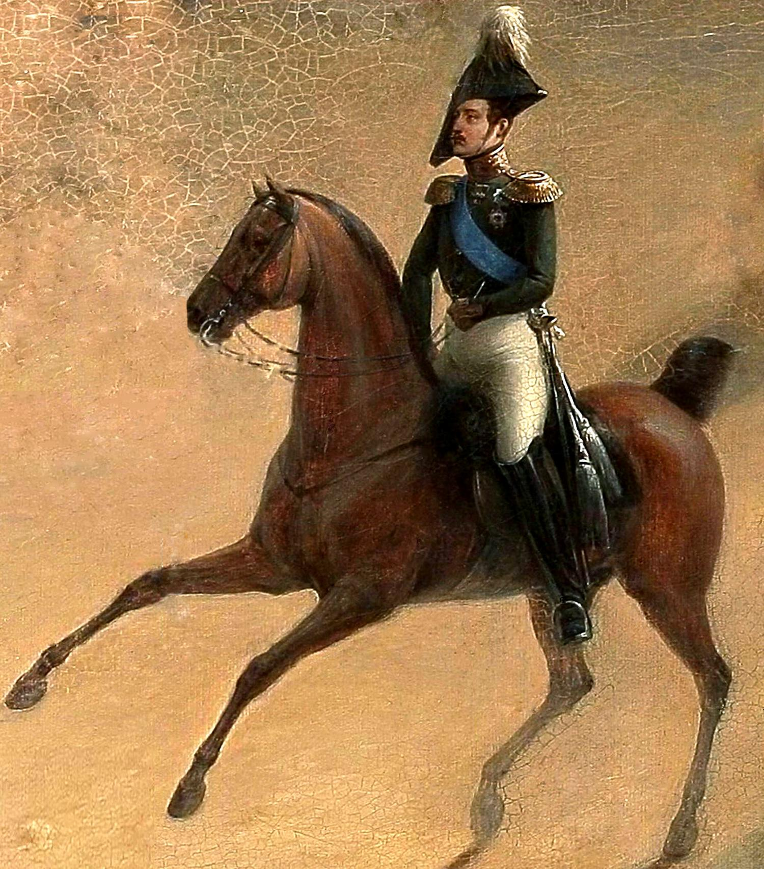 Parade and thanksgiving service to mark the end of military operations in the Kingdom of Poland October 6, 1831 at Tsaritsyn Meadow in St Petersburg (oil painting, fragment, Russian emperor Nikolay the 1st).